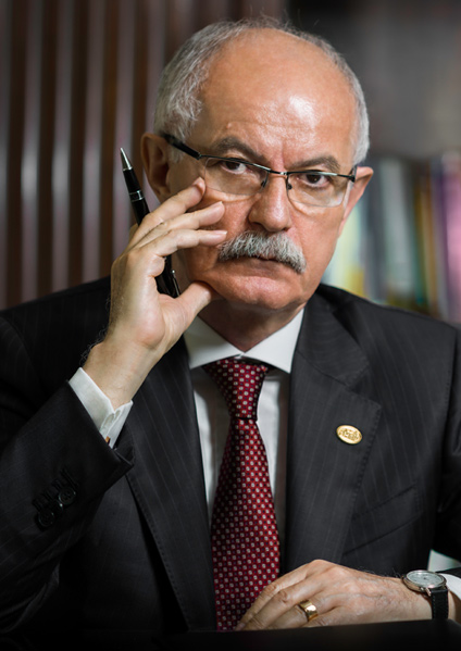 Sombat Hacoupian